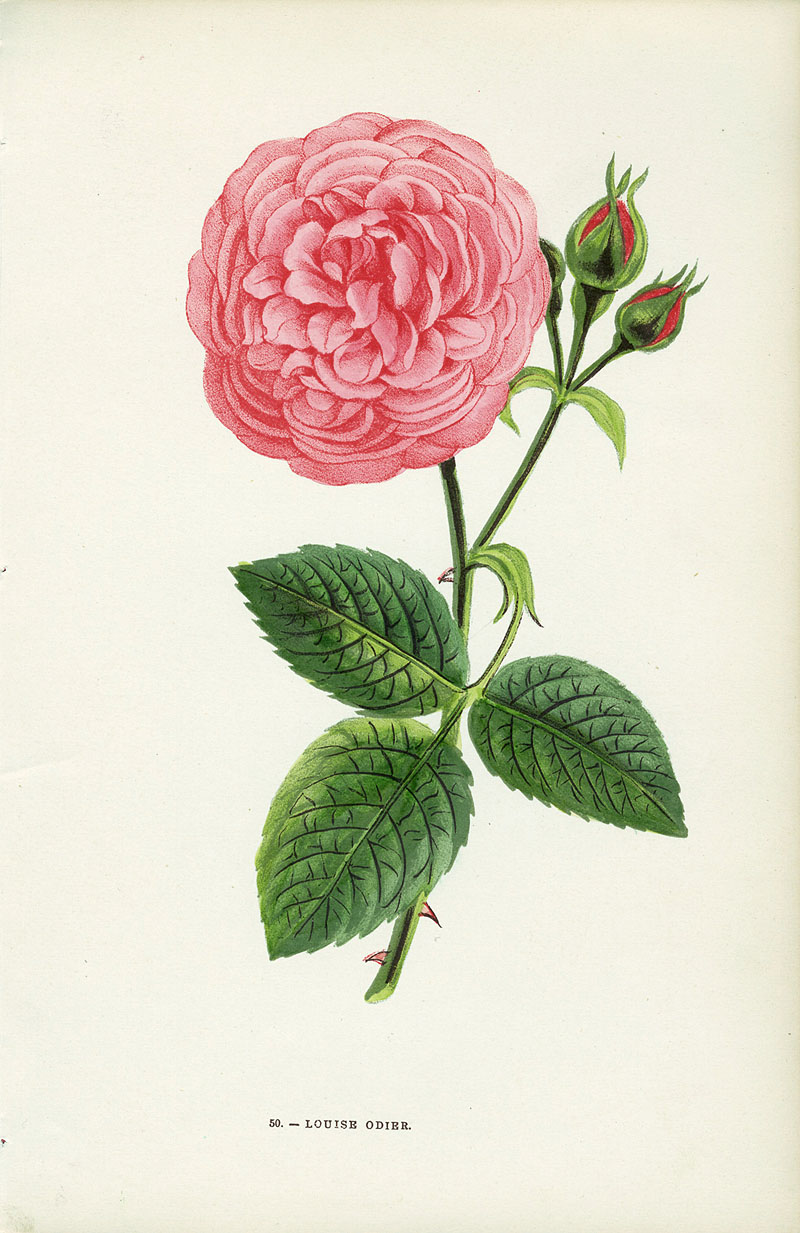 Rosa 'Louise Odier'